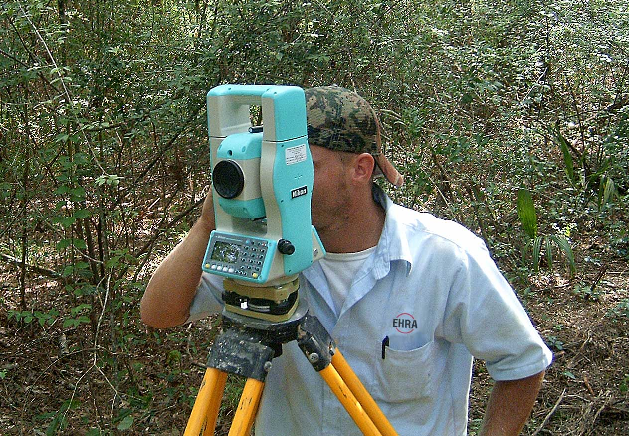 A land surveyor from EHRA Engineering: Land Surveying using survey equipment out in the field.